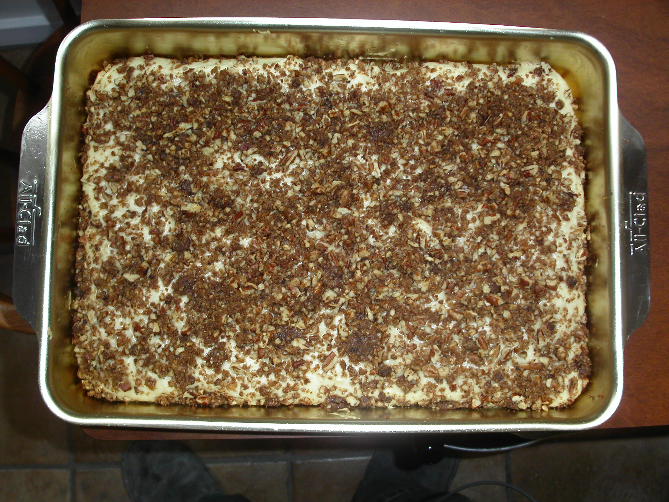 A coffee cake fresh out of the oven!.good coffee cake